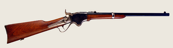 Spencer carbine